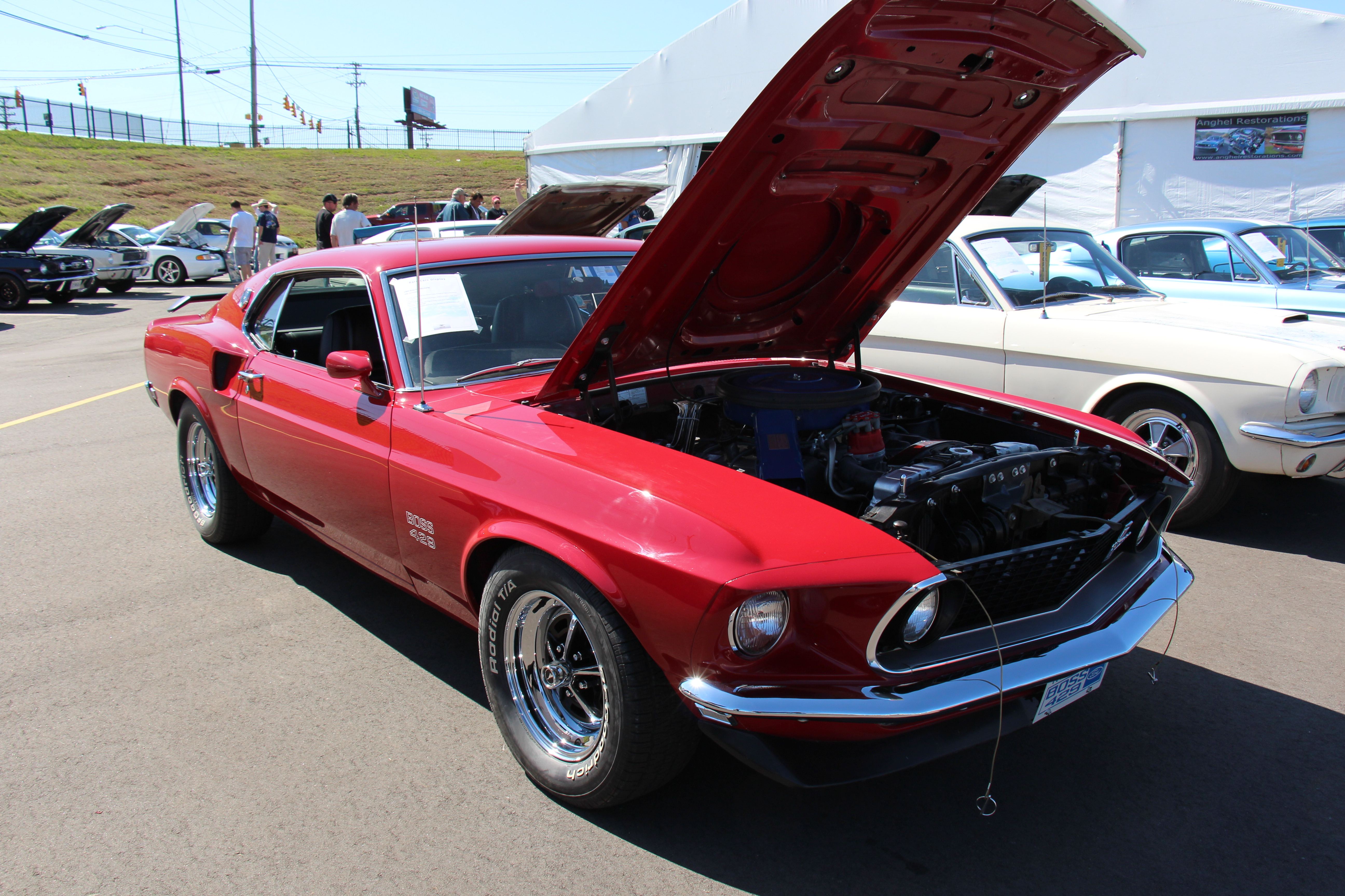 Candyapple Red, The 1969 Mustang got a new body, nearly 4 inches longer than the 1968 model. The Fastback was now called the Sportsroof. The Boss 429 was born of Ford's need to qualify 500 examples of its new racing engine for NASCAR. But instead of putting production units in the midsize Torinos it ran in stock-car racing, Ford offered the engines in the 69 and 70 Mustangs. It was a serious mill: four-bolt mains, a forged steel crankshaft, and big-port, staggered-valve aluminum heads with crescent-shaped combustion chambers, 735-cfm Holley with ram-air, an aluminum high-riser, and header-type exhaust manifolds. Outside, simple decals, front spoiler, Magnum 500 wheels and hood scoop (Body colour for 69, black for 70). 859 1969 Boss 429s were made, including 2 Boss Mercury Cougars Photographed at the 50th Anniversary of the Mustang celebrations at the Charlotte Motor Speedway, April 2014